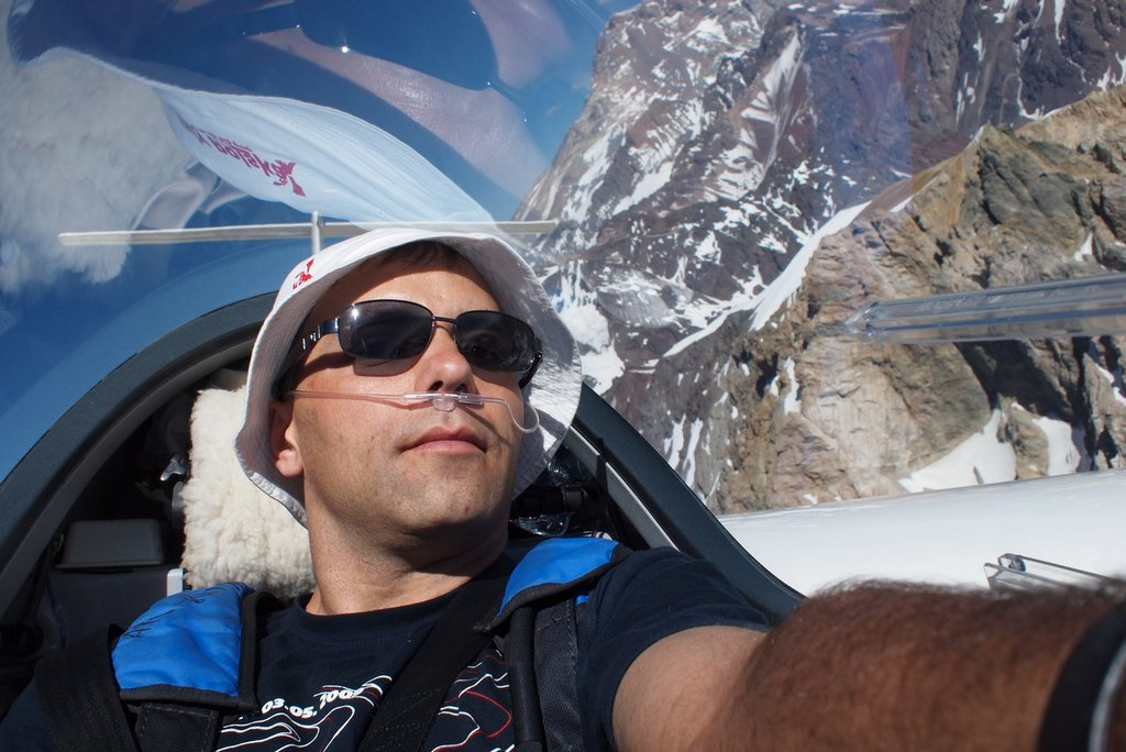 Sebastian Kawa piloting over the Aconcagua. Training before FAI World Grand Prix 2008. Altitude approx 7000m AMSL. SZD-56 Diana 2 glider.